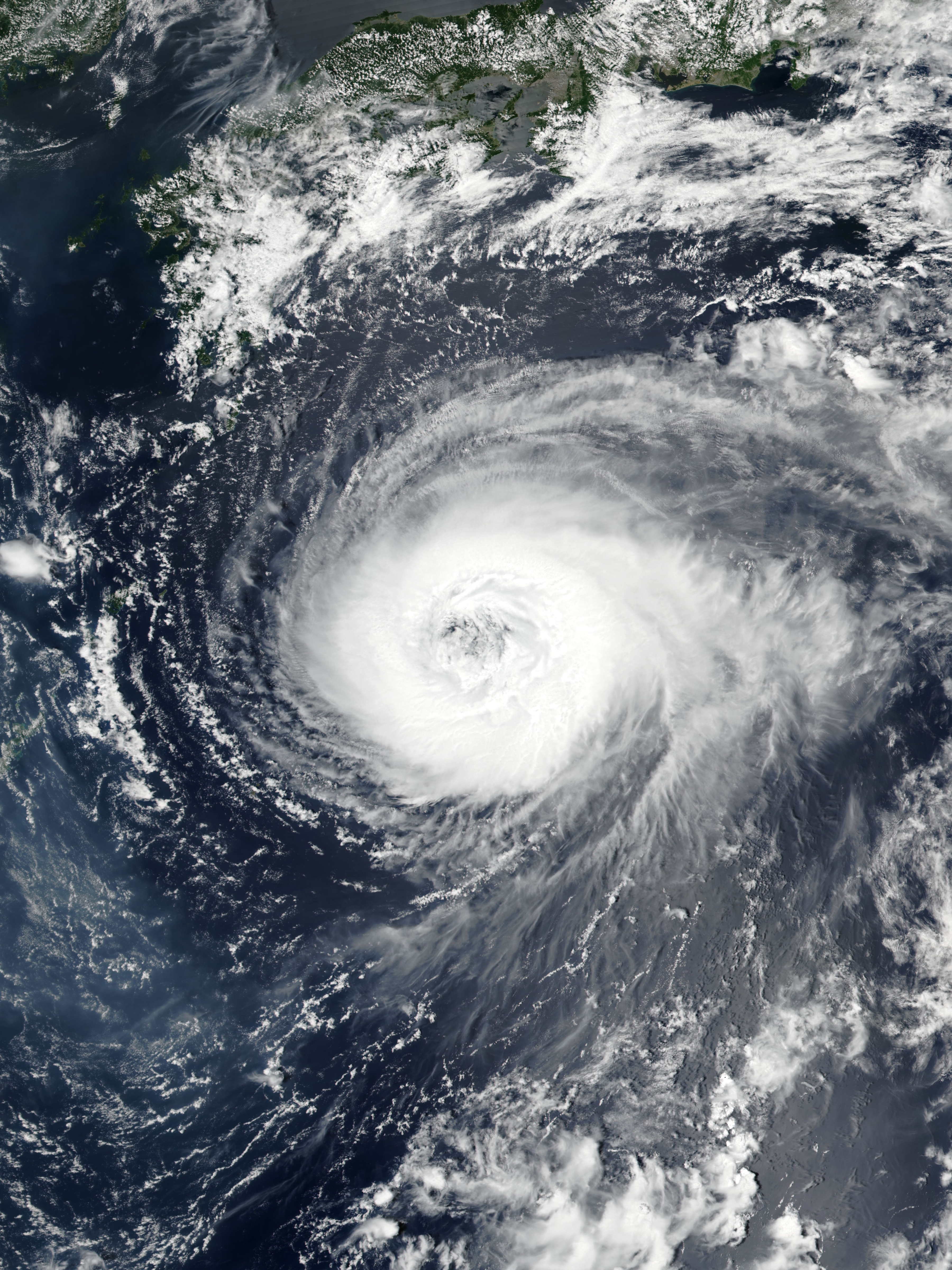 Typhoon Noru south of Japan on August 3, 2017, with an enormous eye surrounded by the donut-like ring.